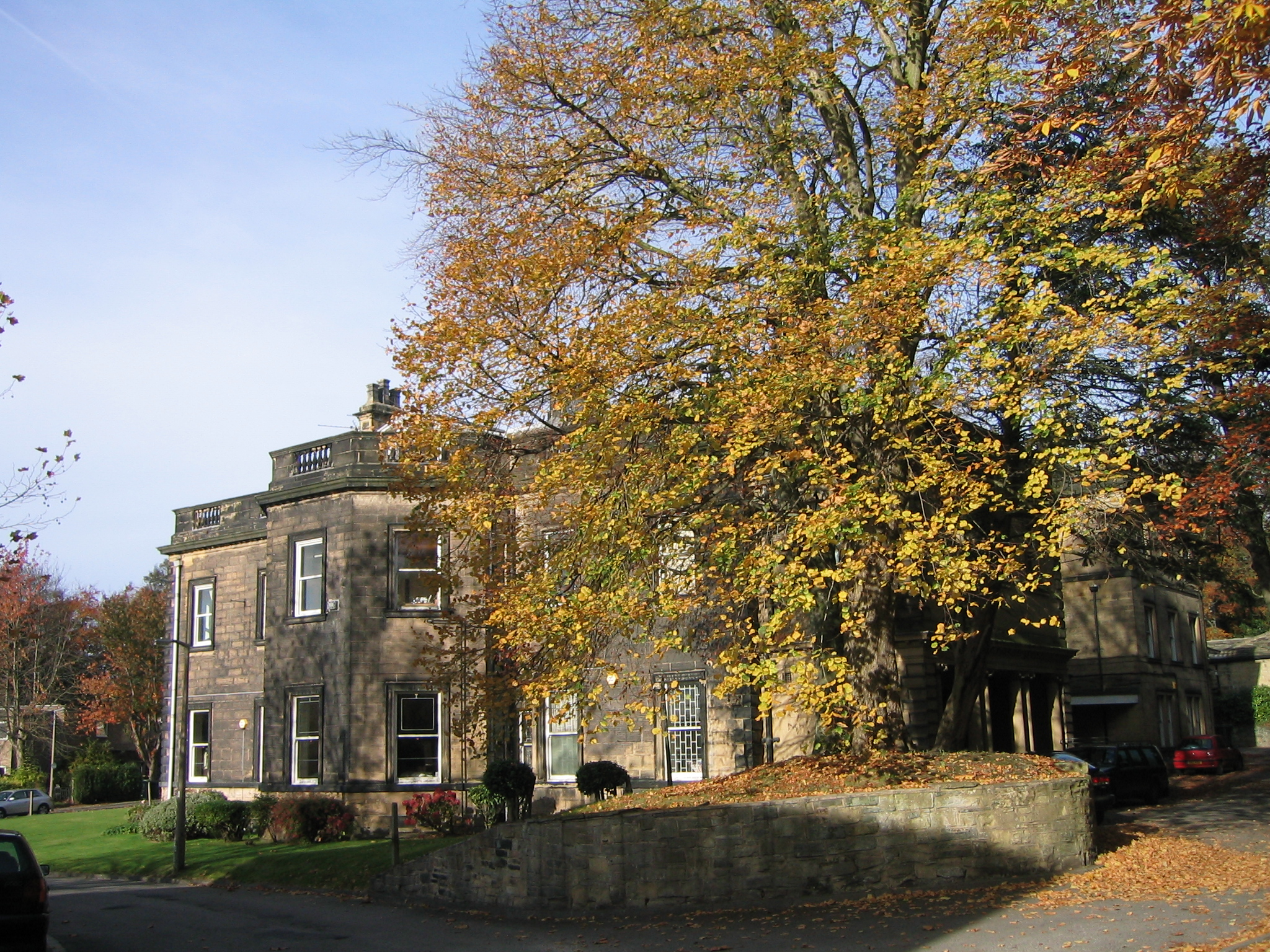 Gledhow Hall, Leeds. A 17th century mansion, once owned by James Kitson, 1st Baron Airedale.